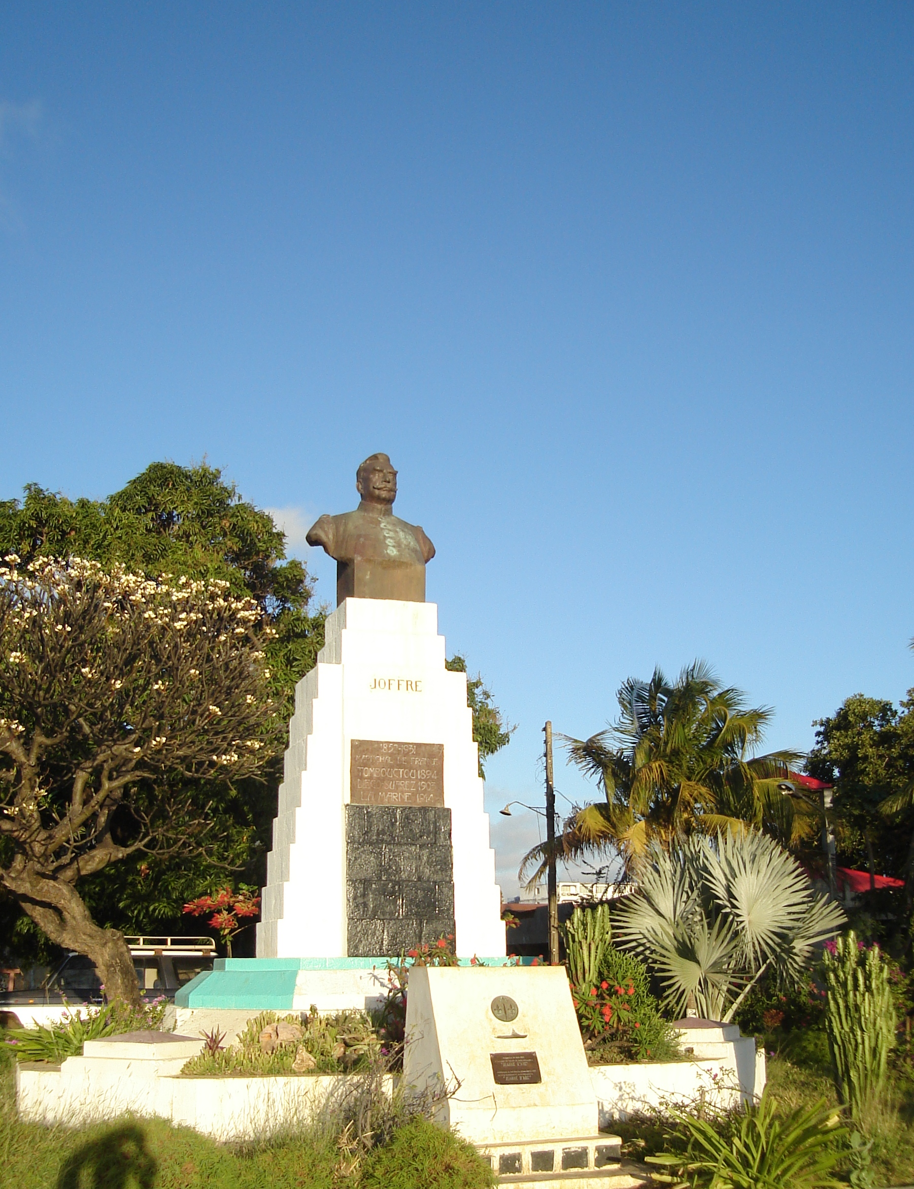 Monument of Marechal Joseph Joffre at Place Joffre, Antsiranana, Madagascar